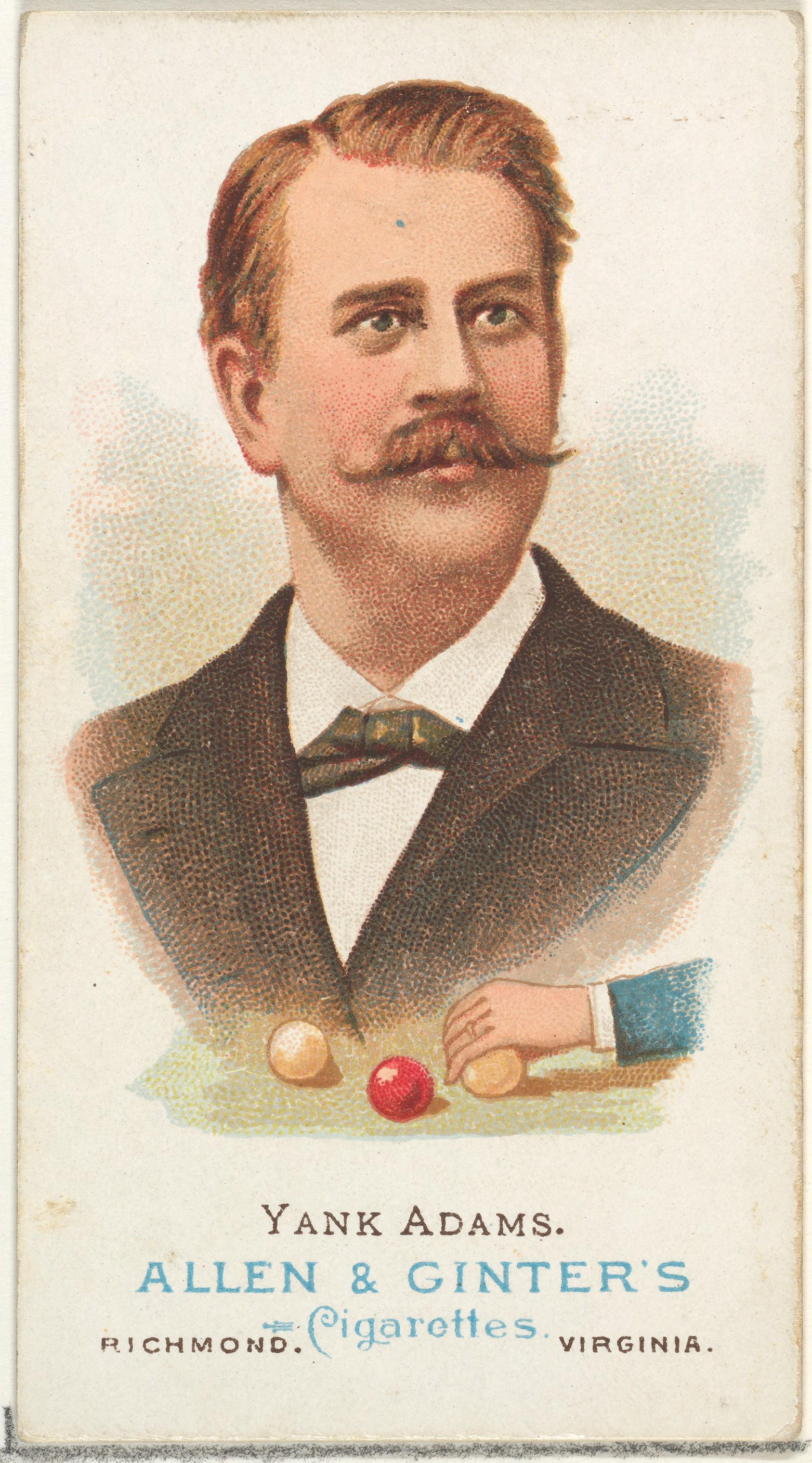 Print; Prints/Ephemera